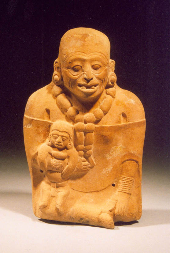 Ancient woman with child. Maya or Jaina. 7th-10th century. The Baltimore Museum of Art: Gift of John and Marisol Stokes, Upper Nyack, New York. BMA 2006.117